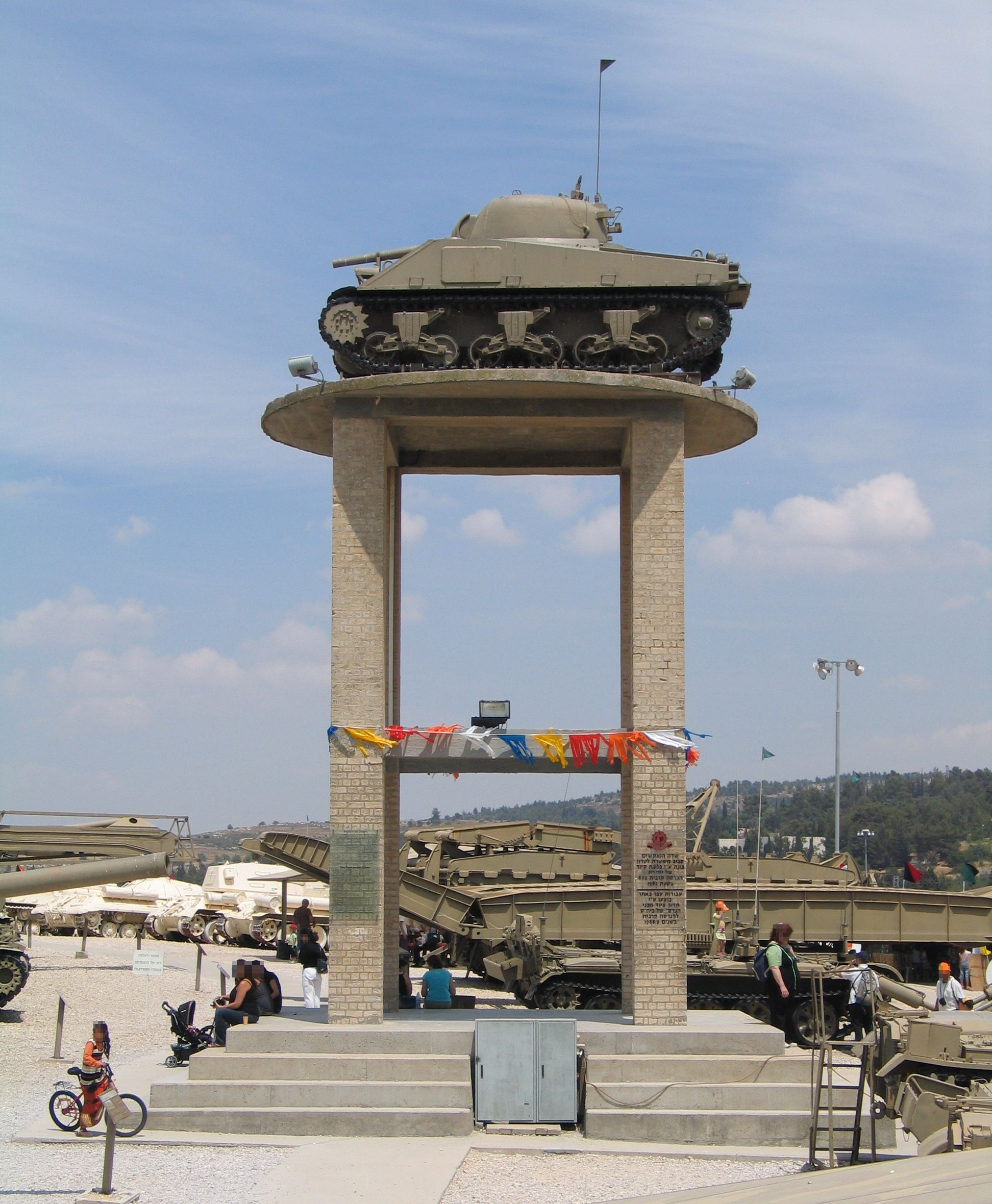 M4 Sherman on top of a former water tower in Yad la-Shiryon Museum, Israel. Judging by rear view, seems to be M4 proper.